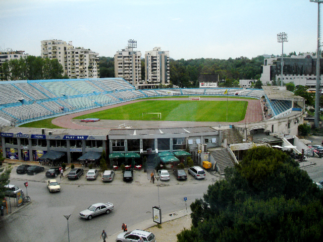 Qemal Stafa Stadium, Tirana, Albania – seen from North with the main Grandstand to the right